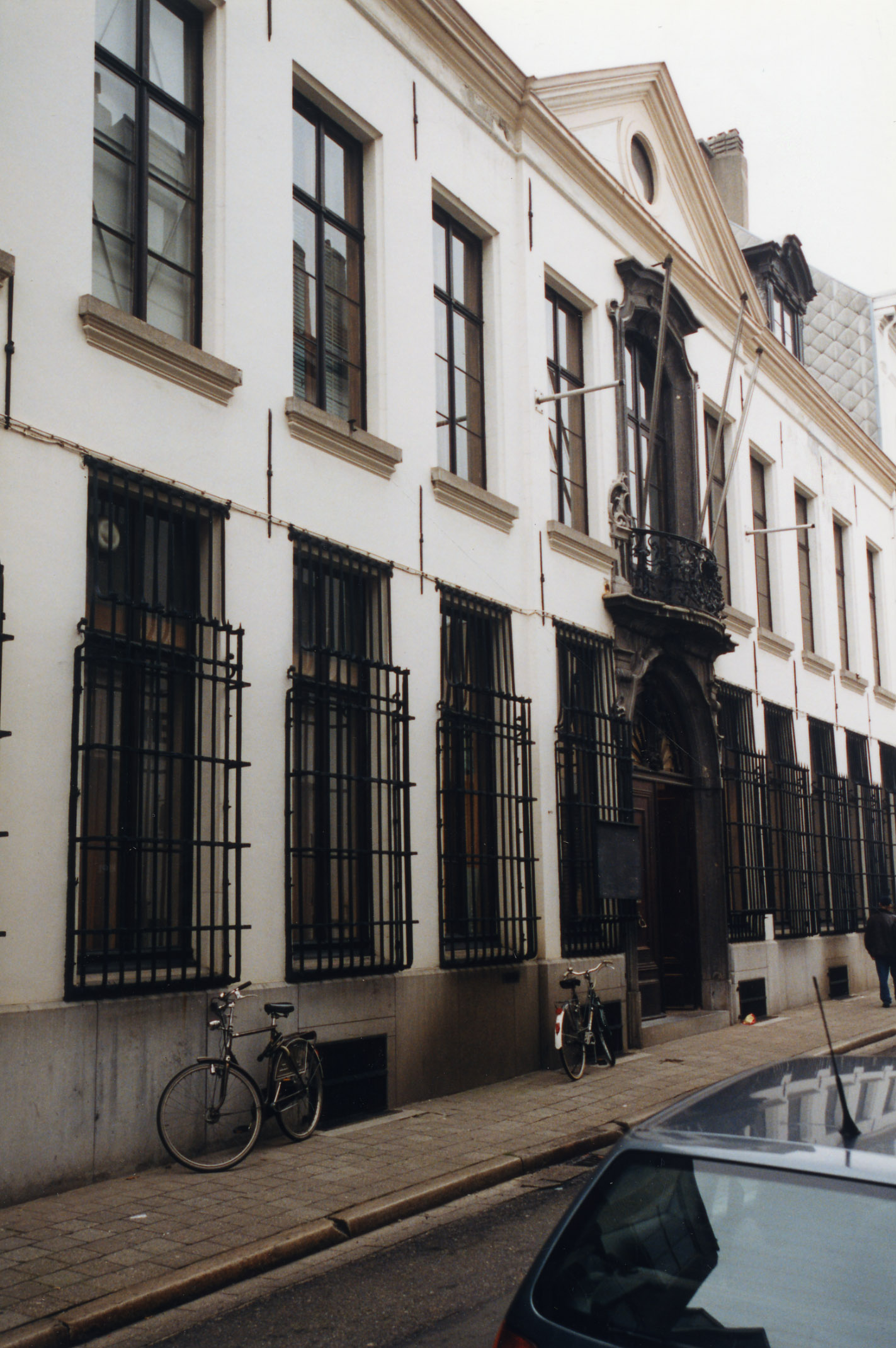 Gevel Letterenhuis, Antwerpen